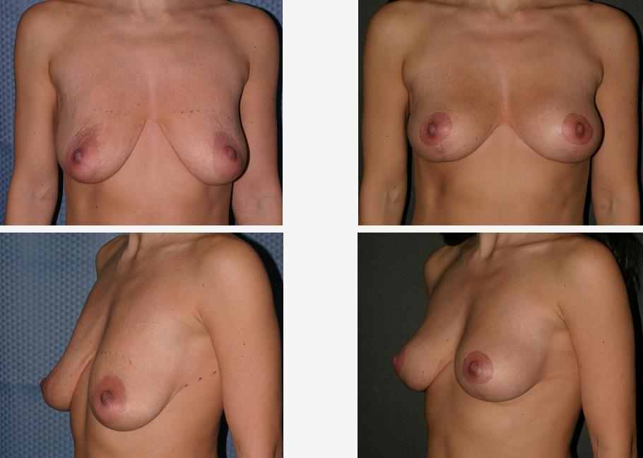 Mastopexy: Pre-operative (left) and post-operative (right) aspects of a breast-lift surgery.